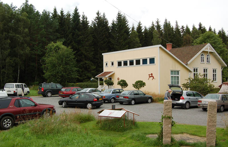 Tanums Hällristningsmuseum Underslös